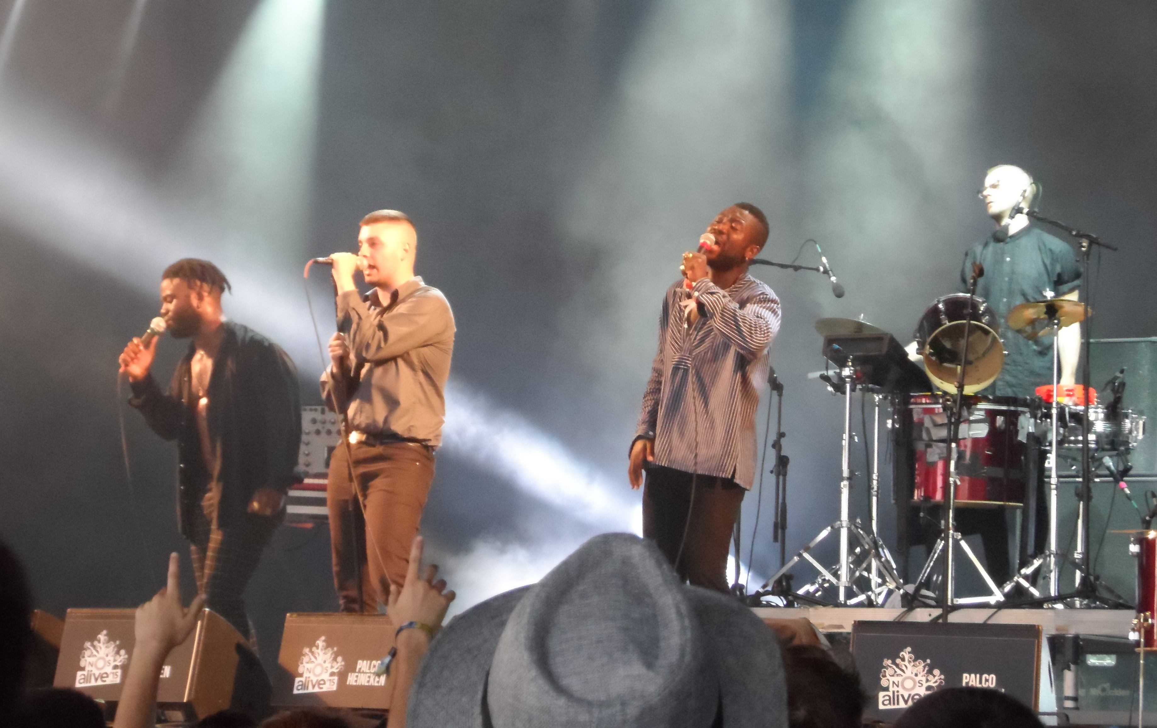 Young Fathers